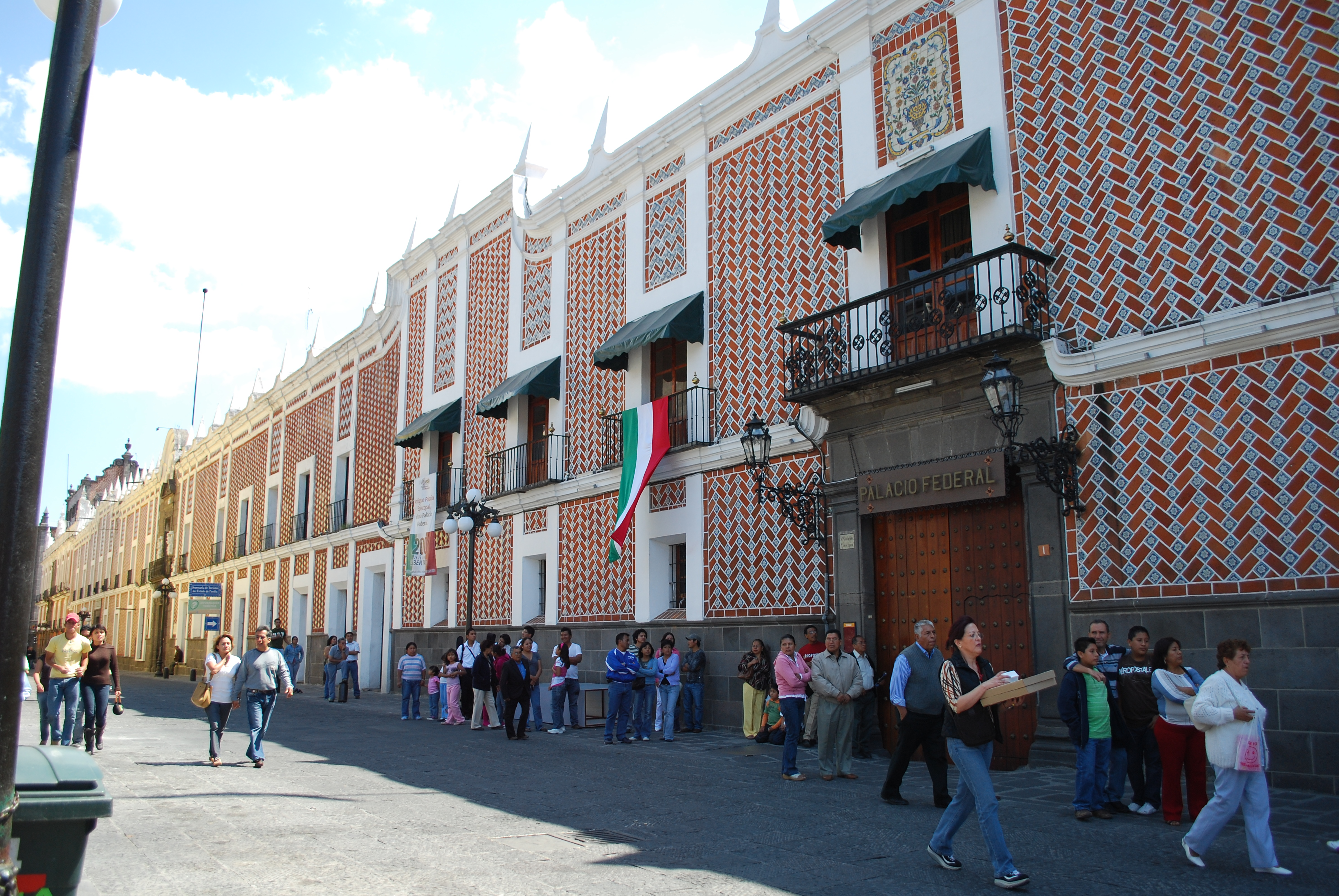 View of tiled buildings along 5 Oriente Street in the historic center of Puebla, Mexico